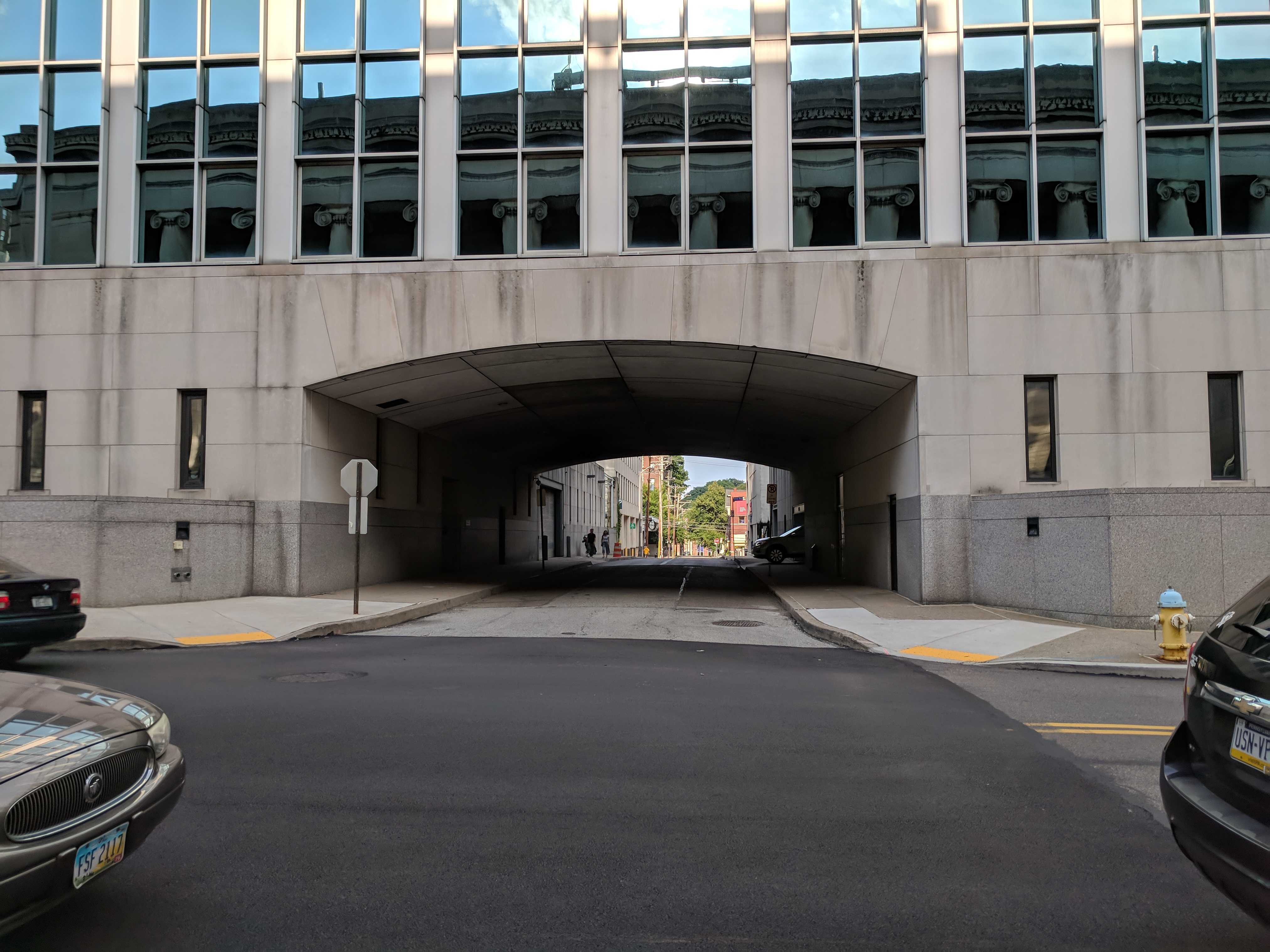 The SEI Tunnel as seen in the Dark Knight Rises